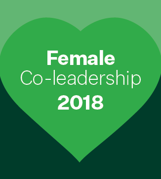 Logo used for the Green Party of Aotearoa Female Co-leadership Election 2018